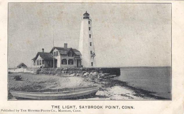 Postcard: Lynde Point Light, undivided-back postcard from 1901-1907 era Description: Caption in front of postcard states: "The Light, Saybrook Point, Conn." Front of postcard also states in lower lefthand corner: "Published by the Hunter Photo Co., Madison, Conn." Store Web page states: "POSTCARD, with undivided back, is from about 1905 [...] It is postally unused." Note: Contemporary pictures of Lynde Point Lighthouse show it to be the same structure shown in this postcard. Saybrook Breakwater Light, nearby, looks very different.